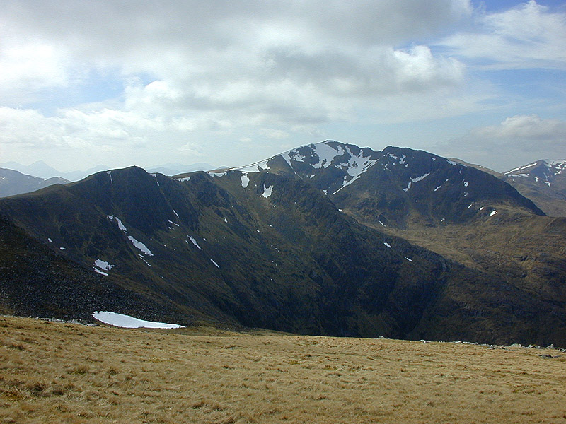 View towards Aonach air Chrith from Druim Shionnach Taken from not far below the distinct step on the ridge. Looking over Coire an t-Sluain, with the crags lining the north side of the South Glen Shiel ridge on the left.